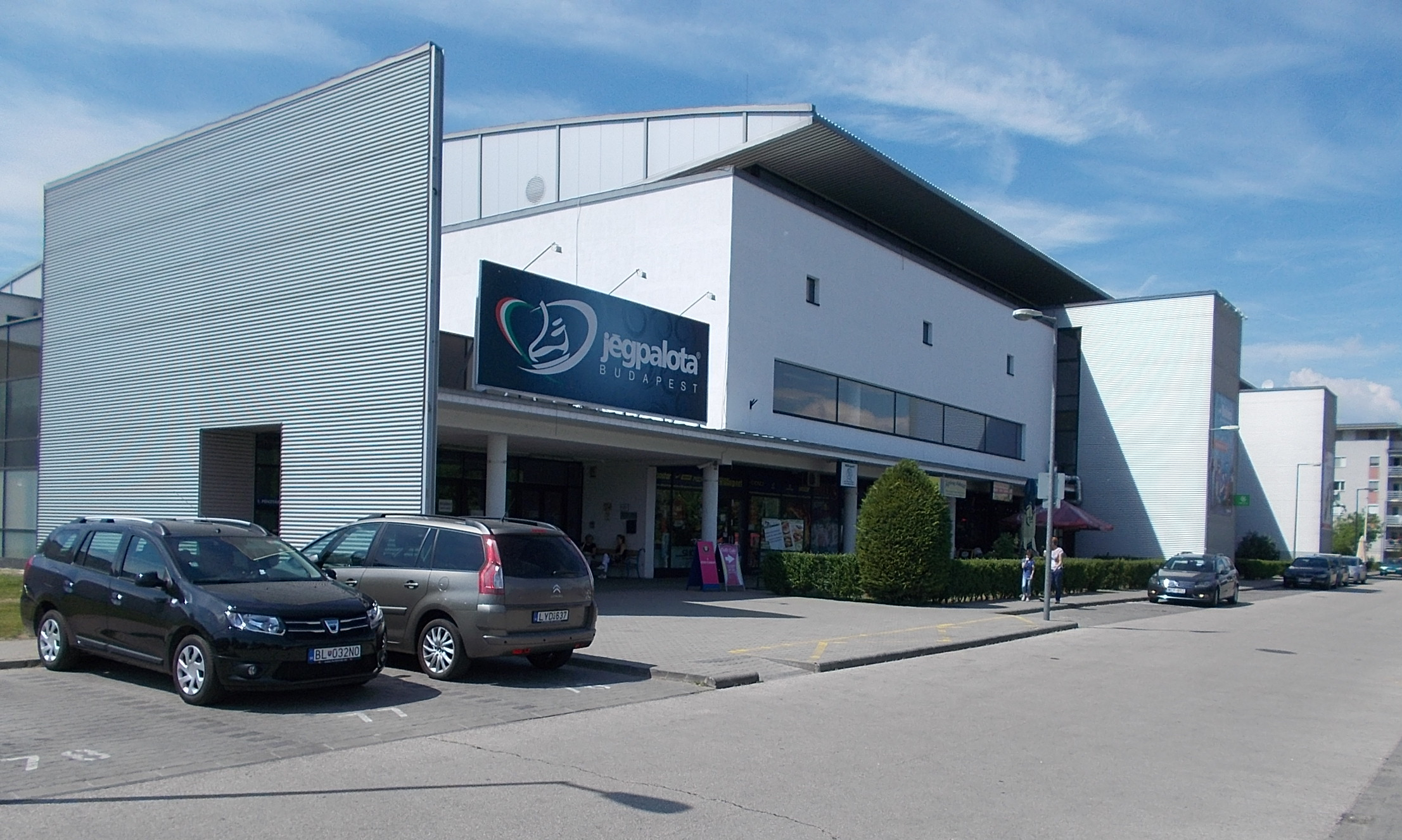 Jégpalota ( Ice palace ). - Homoktövis Street, Káposztásmegyer neighborhood, 4 district of Budapest,Hungary.